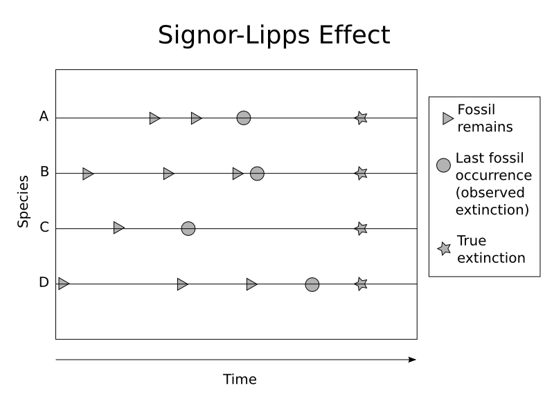 The Signor-Lipps effect can reduce the apparent severity of a catastrophic extinction by making it appear to be extended in time. Until I can get Inkscape to output a good svg here is a png.